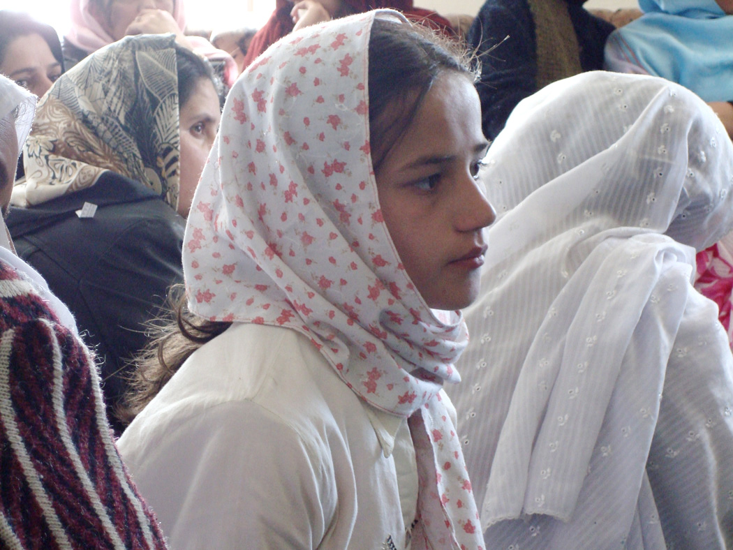 A girl listens during the International Women’s Day celebration in Pajshir province’s Bazarak district, March 8, 2009. More than 100 women and girls attended the event. Ирон: Афгъанистаны Панджшеры провинцийы сылгоймæгтæ бæрæг кæнынц Сылгоймæгты æхсæнадæмон бон. 2009-æм азы 8 мартъийы